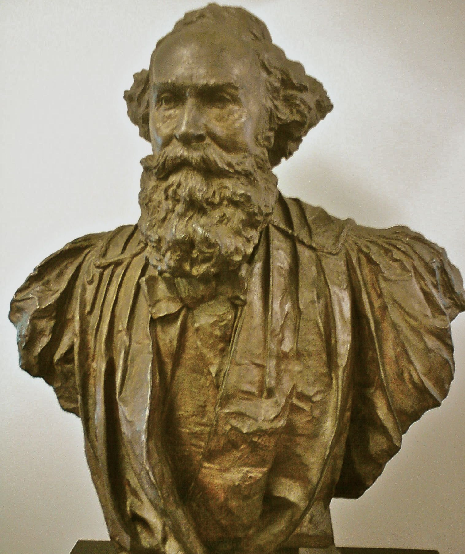 Bronze bust of John LeConte by Rupert Schmidt, San Francisco, 1893; in Physics-Astronomy Library, UC Berkeley